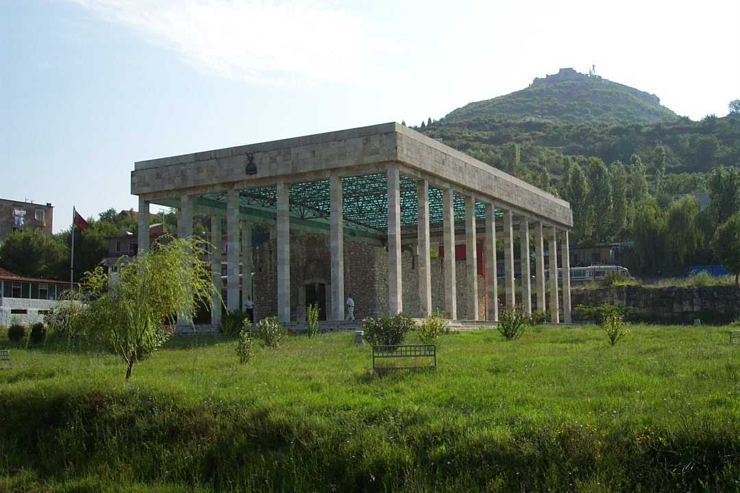 Skanderbeg mausoleum in Lezhë in central Albaniahelp